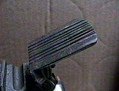 photograph of grooved frizzen of miquelet lock